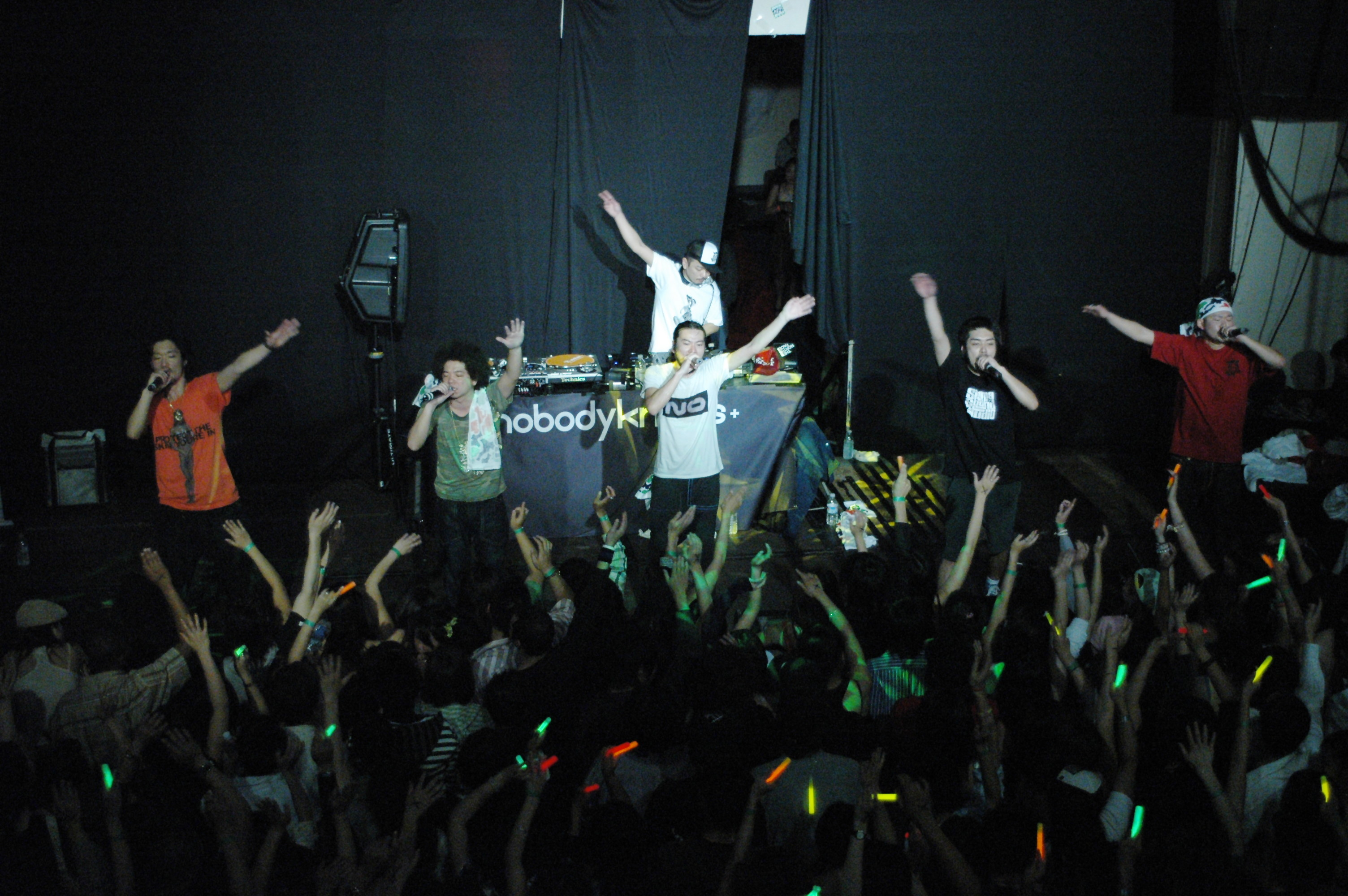 Japanese hip-hop group nobodyknows+ performing at J!-ENT LIVE on March 24, 2007.